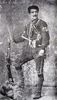 Portrait of Greek revolutionary and army officer Pavlos Giparis